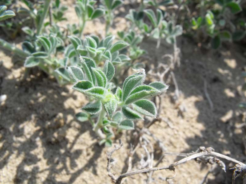 Medicago marina Photo taken on Gargano coastal dune system (Apulia, southern Italy). Photo by Massimilaino Marcelli.